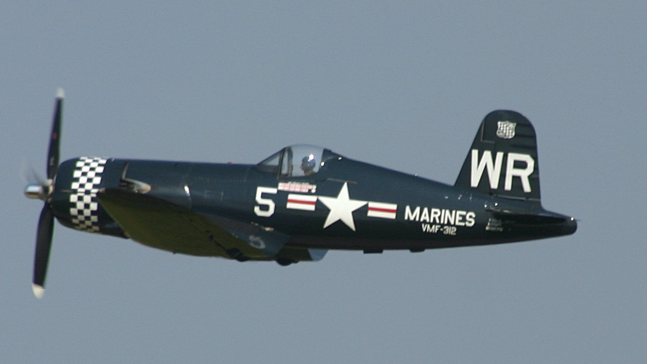 A F4U-5N Corsair appearing at the 2005 AirVenture Air Show at Oshkosh, Wisconsin. * Bureau number : Bu#123168 but using the ID of #122179 from which were used several parts to rebuild airworthy this plane in the 80's * Operational use : Honduran Air Force (FAH) * Modern registration : N179NP